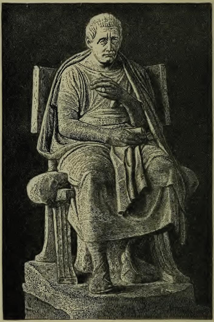 Portrait of Posidippus, an ancient greek comic poet.